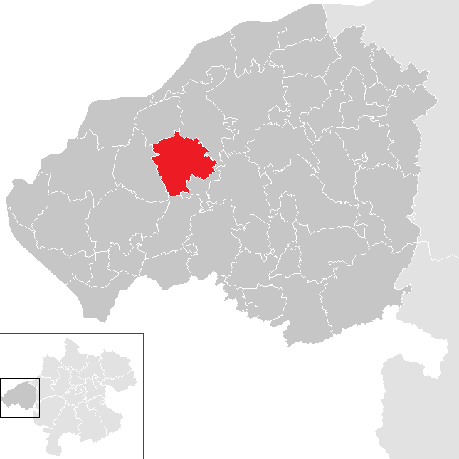 district Braunau am Inn